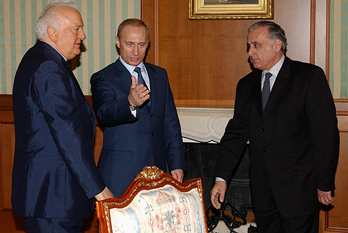 Bocharov Ruchei, Sochi. President Putin with Georgian President Eduard Shevardnadze (left) and Abkhazian Prime Minister Gennady Gagulia.